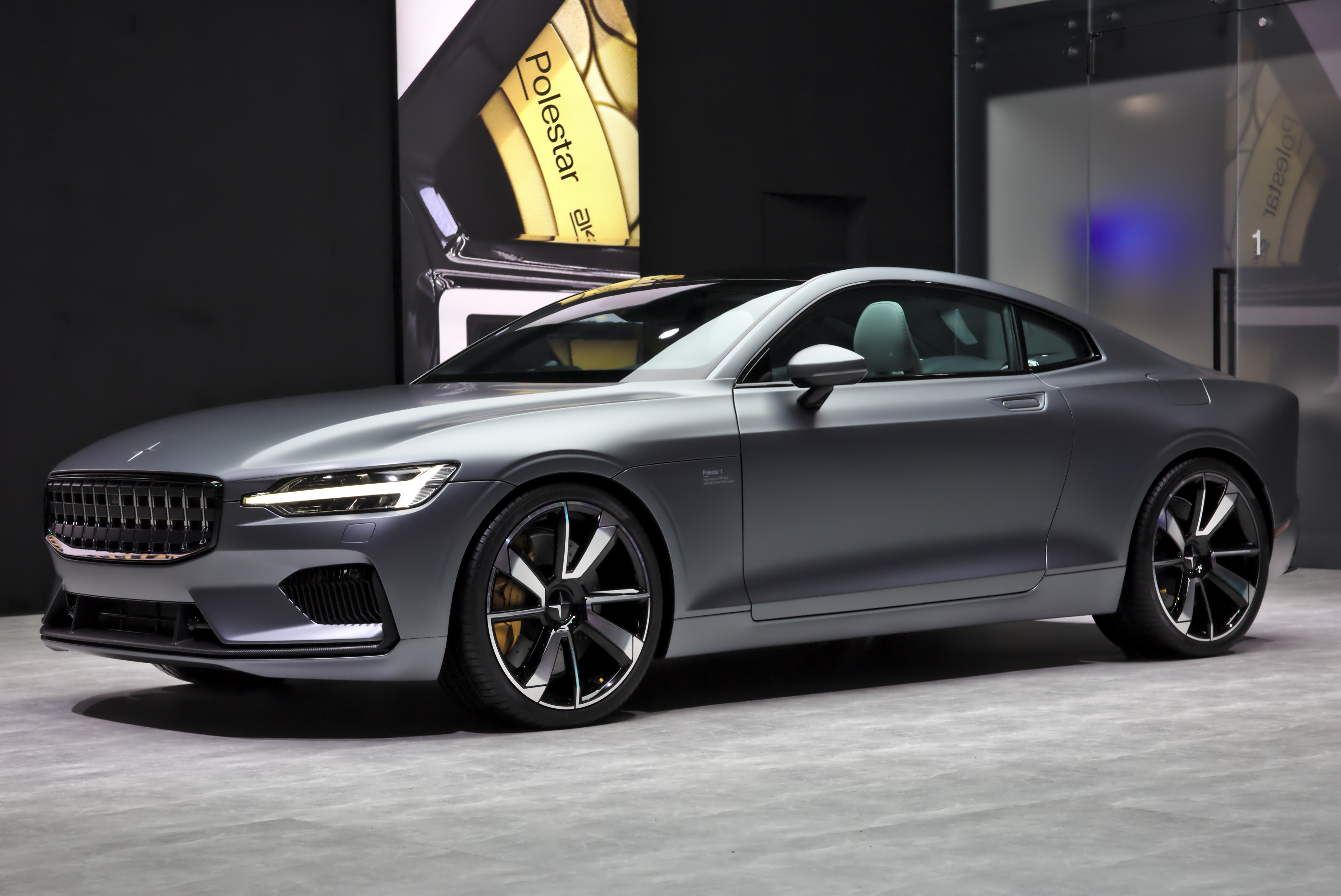 Polestar 1 at Geneva Motor Show 2018